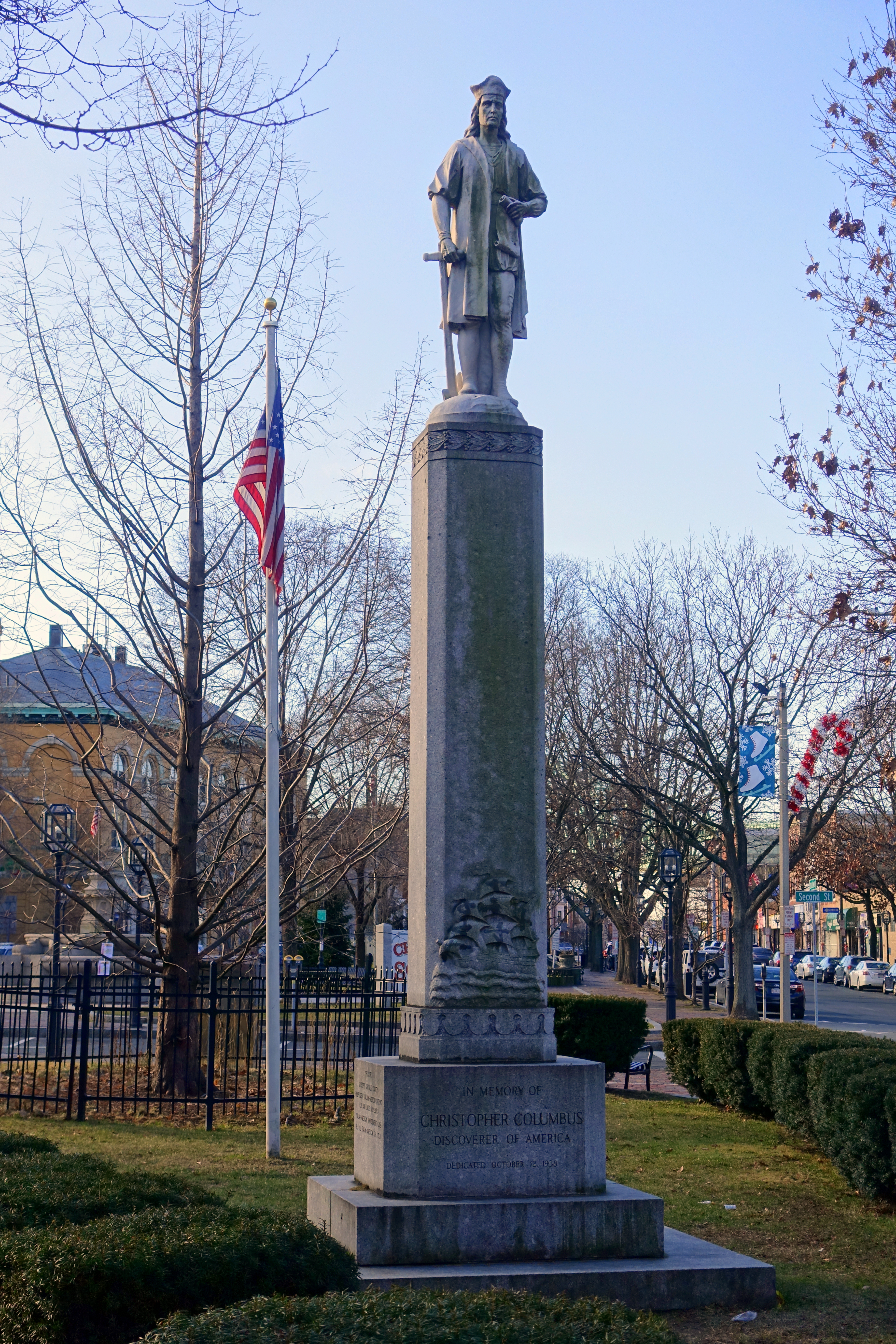 Christopher Columbus Statue, dedicated October 12, 1938 - Chelsea, Massachusetts, USA.